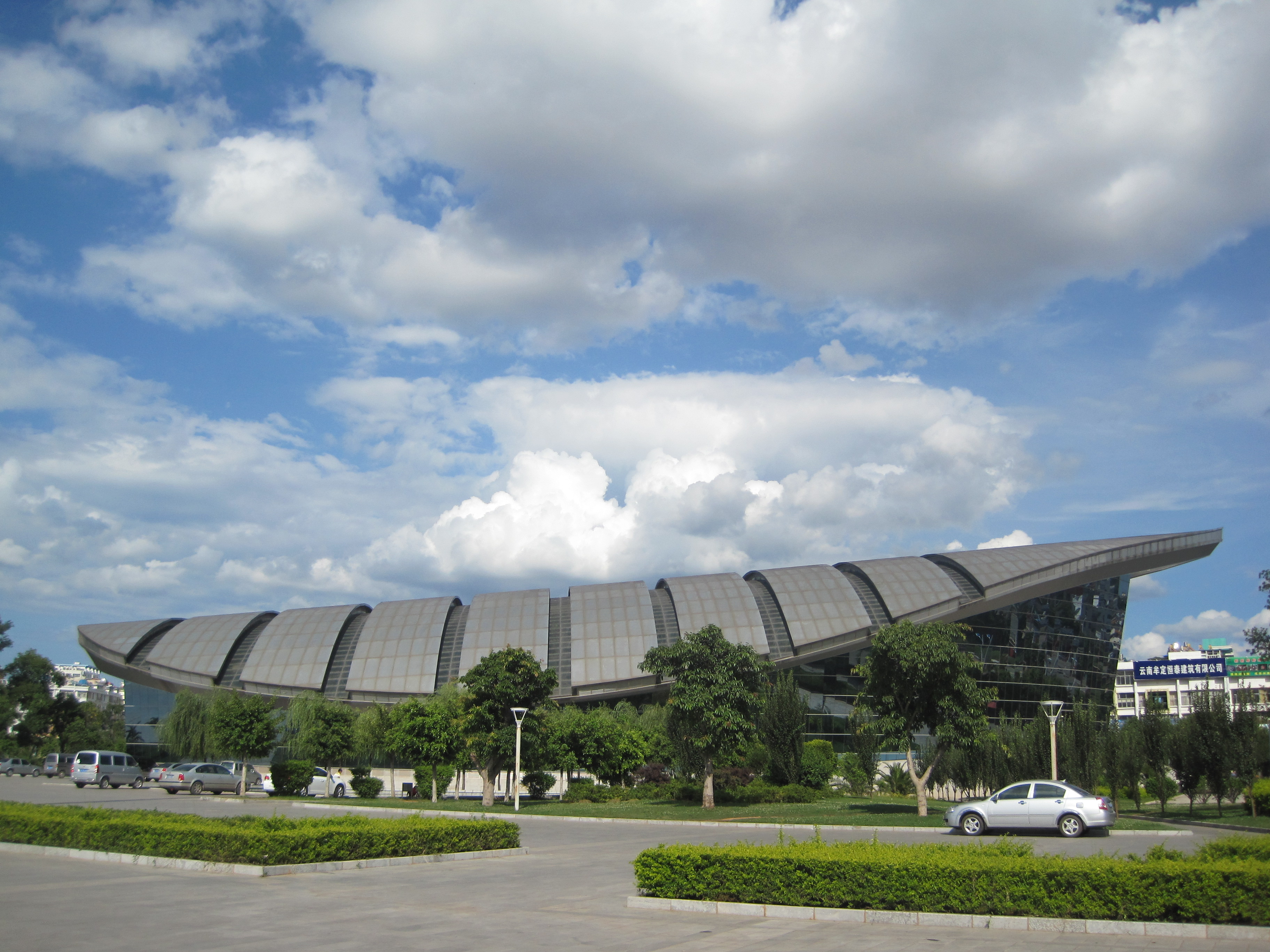 Chuxiong Aquatics Stadium